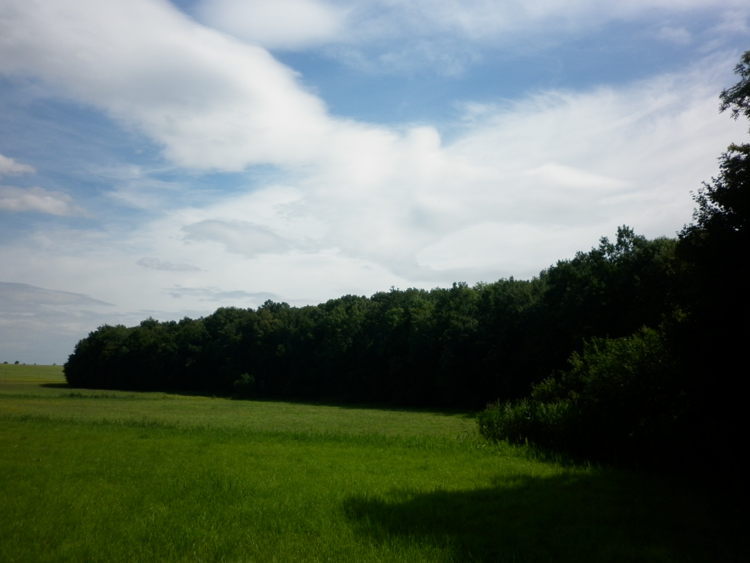 Natural reserve "Bažantnice v Uhersku" in Pardubice District, Czech Republic. Former pheasantry, now a reserve with rare plant and bird species.